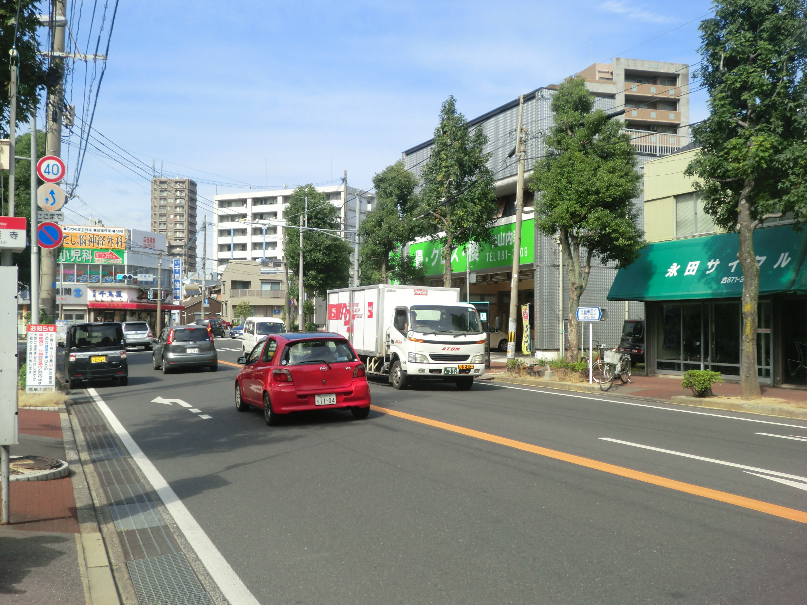 Townscape of Tenraiji area at Kitakyushu, Fukuoka, Japan.